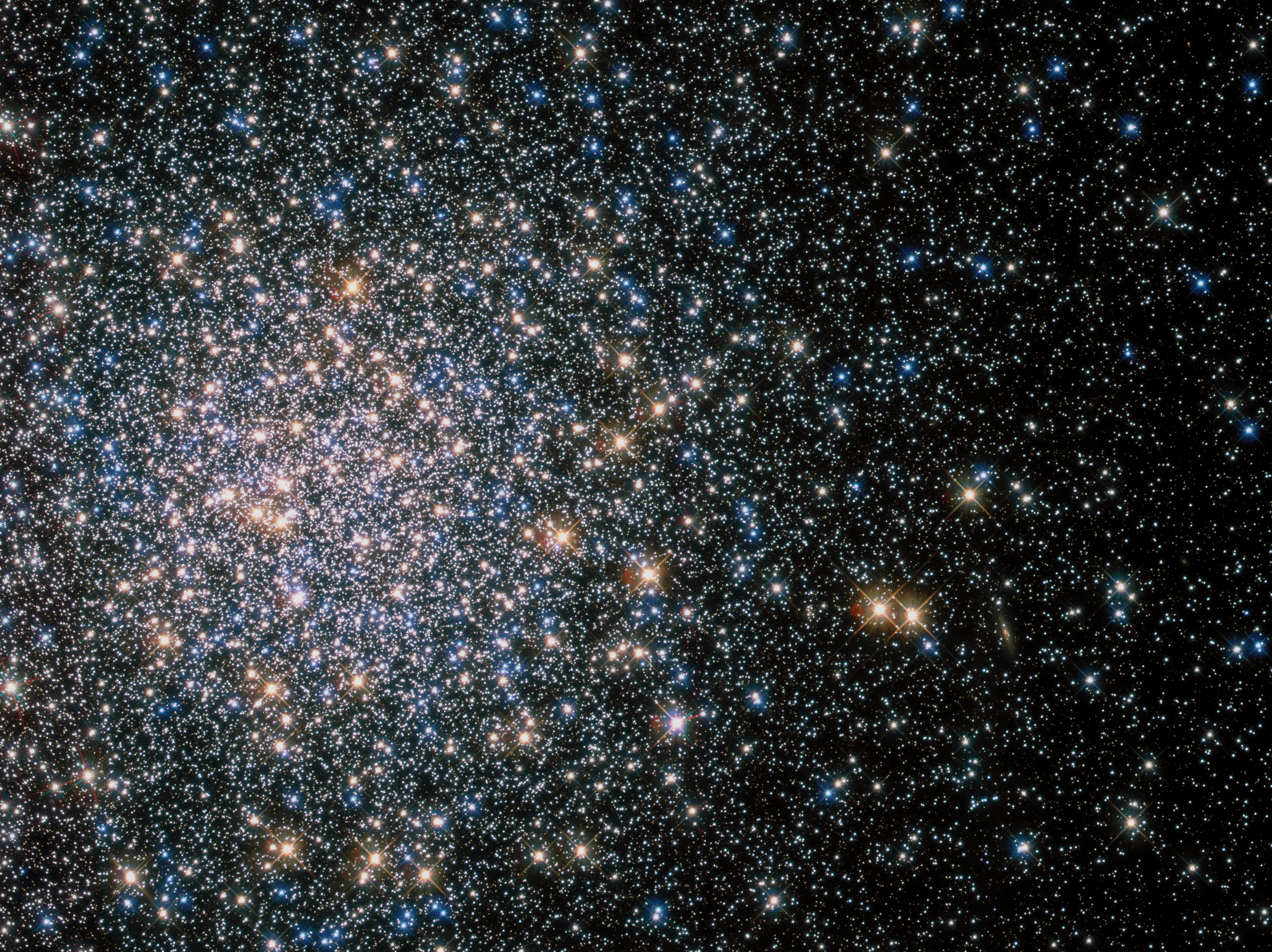 This sparkling jumble is Messier 5 – a globular cluster consisting of hundreds of thousands of stars bound together by their collective gravity. But Messier 5 is no normal globular cluster. At 13 billion years old it is incredibly old, dating back to close to the beginning of the Universe, which is some 13.8 billion years of age. It is also one of the biggest clusters known, and at only 24 500 light-years away, it is no wonder that Messier 5 is a popular site for astronomers to train their telescopes on. Messier 5 also presents a puzzle. Stars in globular clusters grow old and wise together. So Messier 5 should, by now, consist of old, low-mass red giants and other ancient stars. But it is actually teeming with young blue stars known as blue stragglers. These incongruous stars spring to life when stars collide, or rip material from one another.